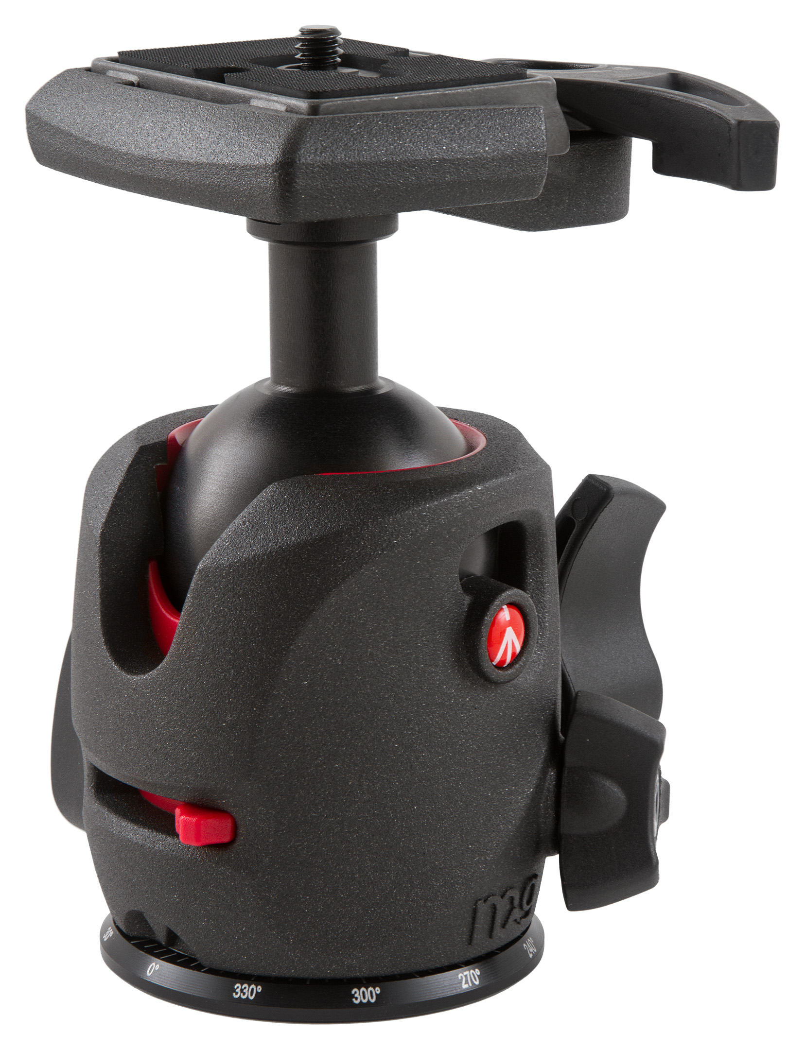 Manfrotto ball head with mounted camera plate.